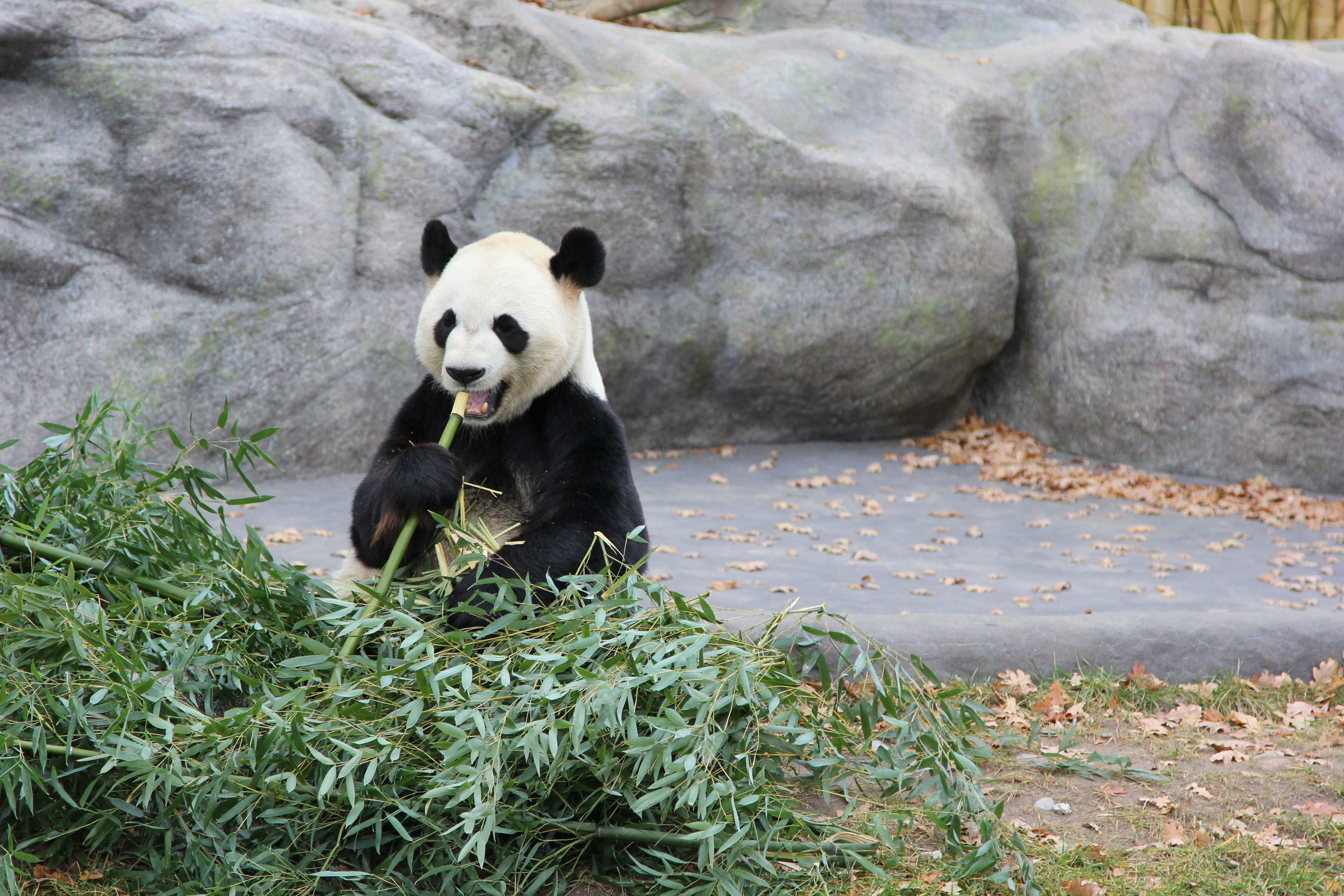 Panda in Toronto zoo